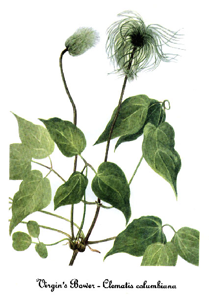 Watercolor painting of Clematis_columbiana-2.